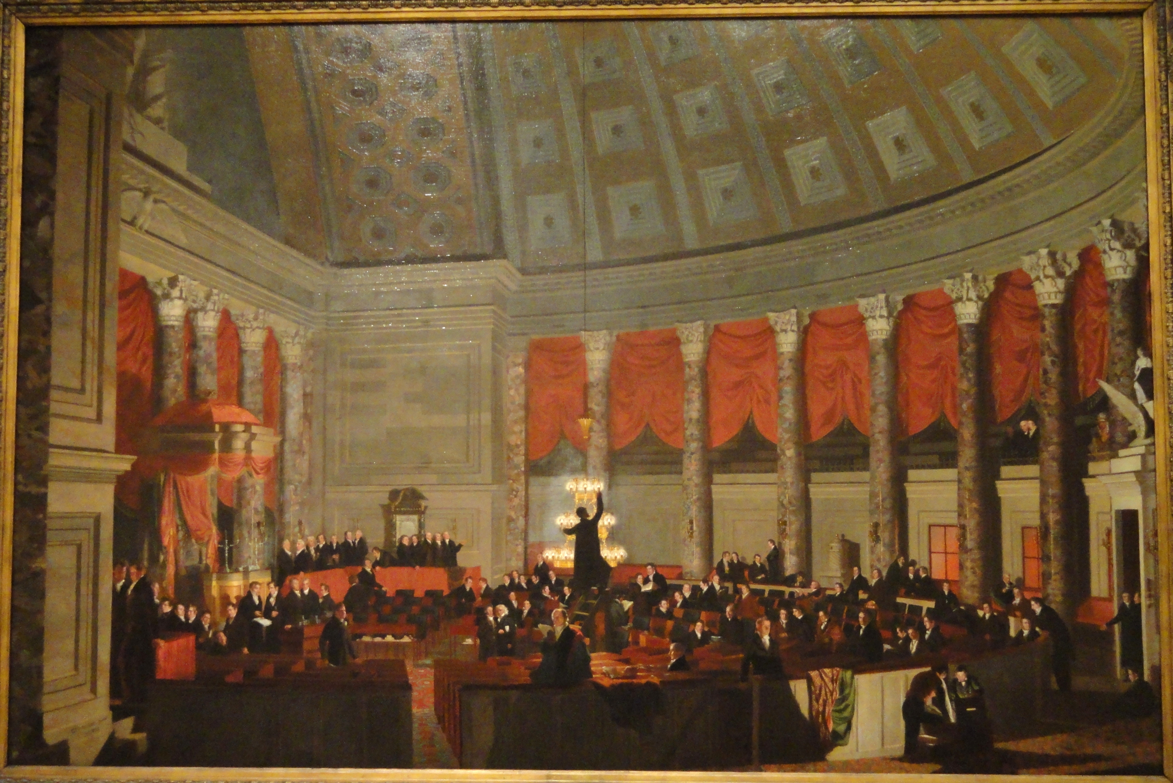 Painting exhibited in the Corcoran Gallery of Art, Washington, D.C., USA.